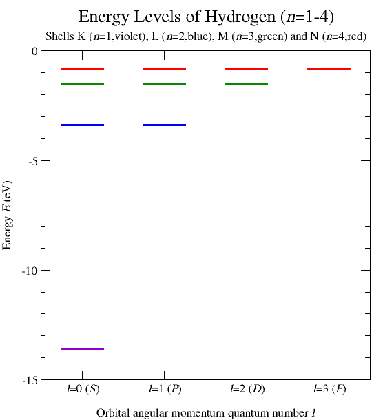 Diagram of the quantized energy levels of hydrogen. The fine structure level splitting (j=l +- ½) is also depicted, but invisible due to their nearness. Made by me using my own GPL software (written and run on 1 December 2006), visualized with Grace (also on 1 December 2006) and hereby released under the GFDL.